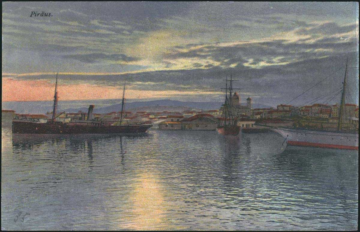 Piraeus